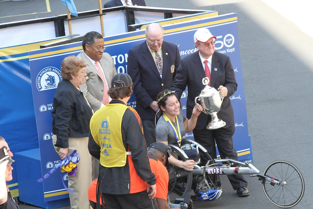 April 16, 2012: The winner of the women's wheelchair race Shirley Reilly from USA raises her trophy from the 116th Boston Marathon (winning time 1:37:36 hours). (Hyunah Jang / Boston University News Service)